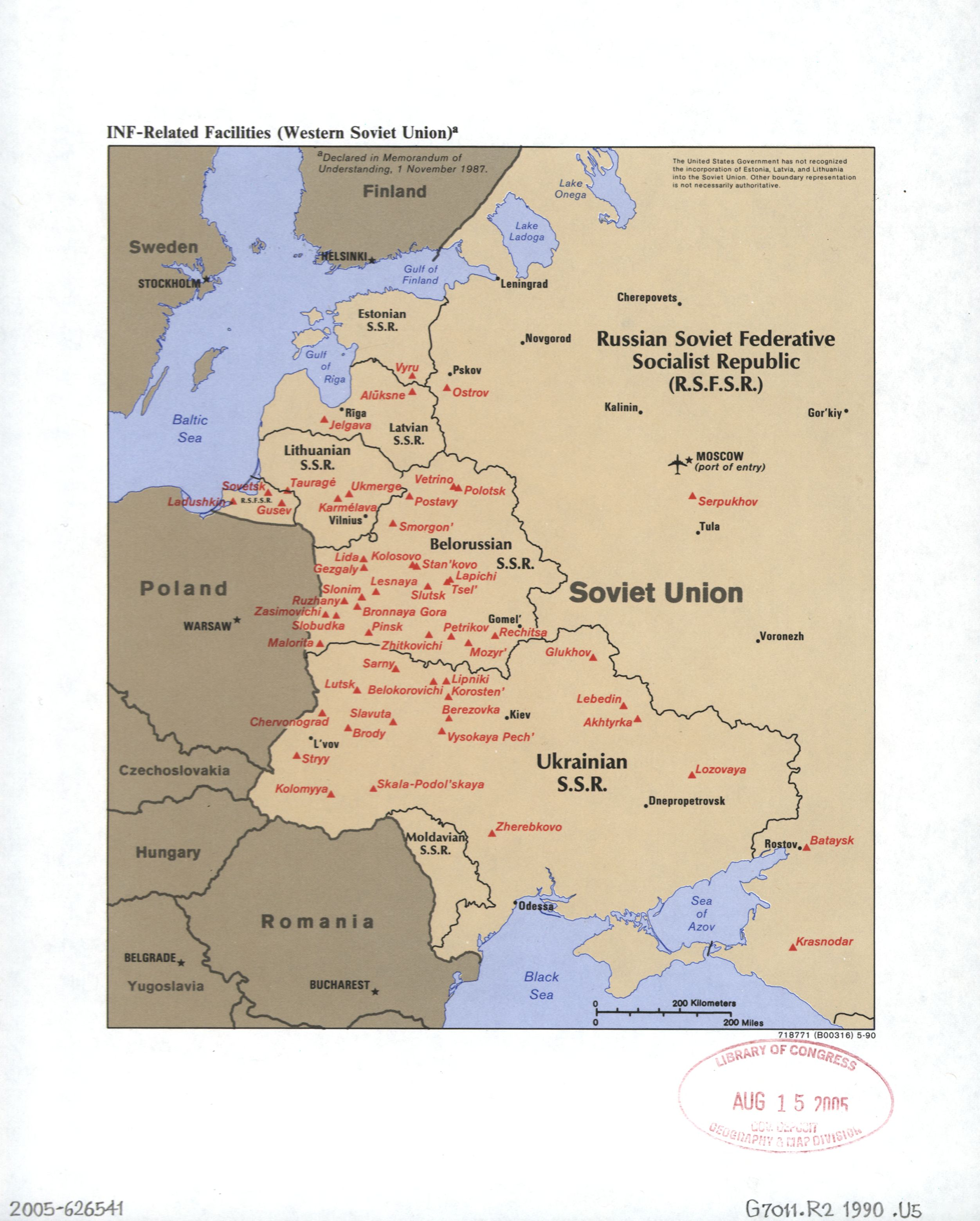 Shows nuclear-weapon facilities subject to INF treaty implementation. Covers European Soviet Union west of Gor'kii. Scale [ca. 1:11,500,000.]